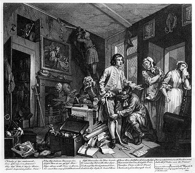 William Hogarth: A Rake's Progress, Plate 1: The Young Heir Takes Possession Of The Miser's Effects, Engraving, 35.5 x 41cm